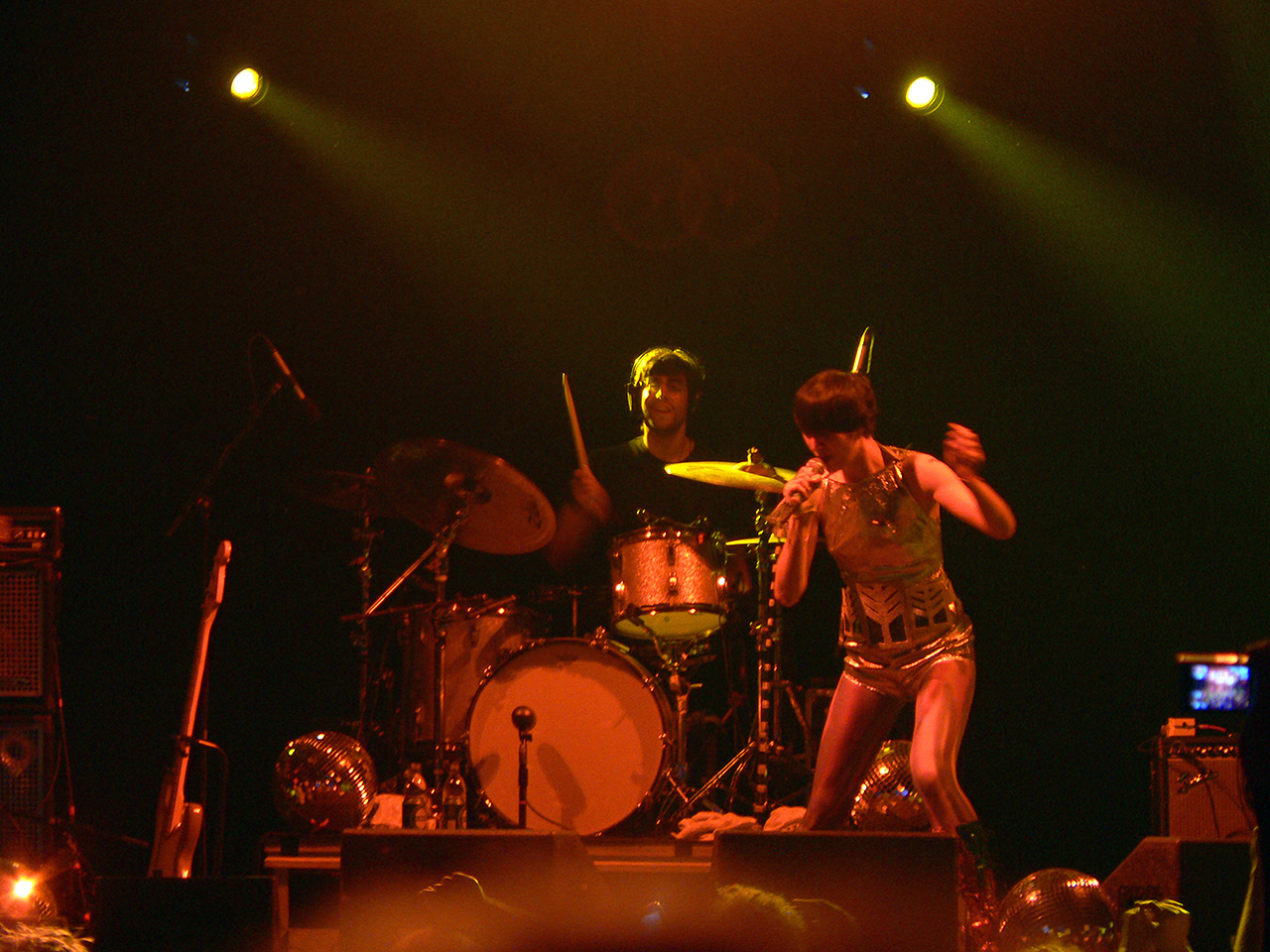 Photo of the Yeah Yeah Yeahs in concert in Malmö, Sweden.